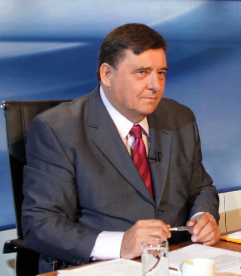 Georgios Karatzaferis (LAOS) at the six party leaders' televised debate ahead of the 2009 Greek legislative elections.